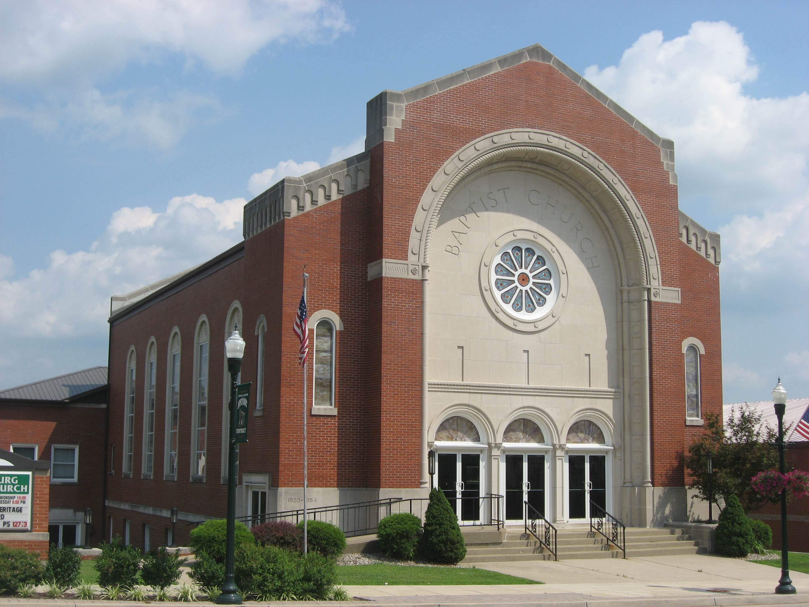 Front of the Greensburg Baptist Church, located at 128 N. Main Street (U.S. Route 68) in Greensburg, Kentucky, United States. Built in 1956, it is part of the Downtown Greensburg Historic District, a historic district that is listed on the National Register of Historic Places.